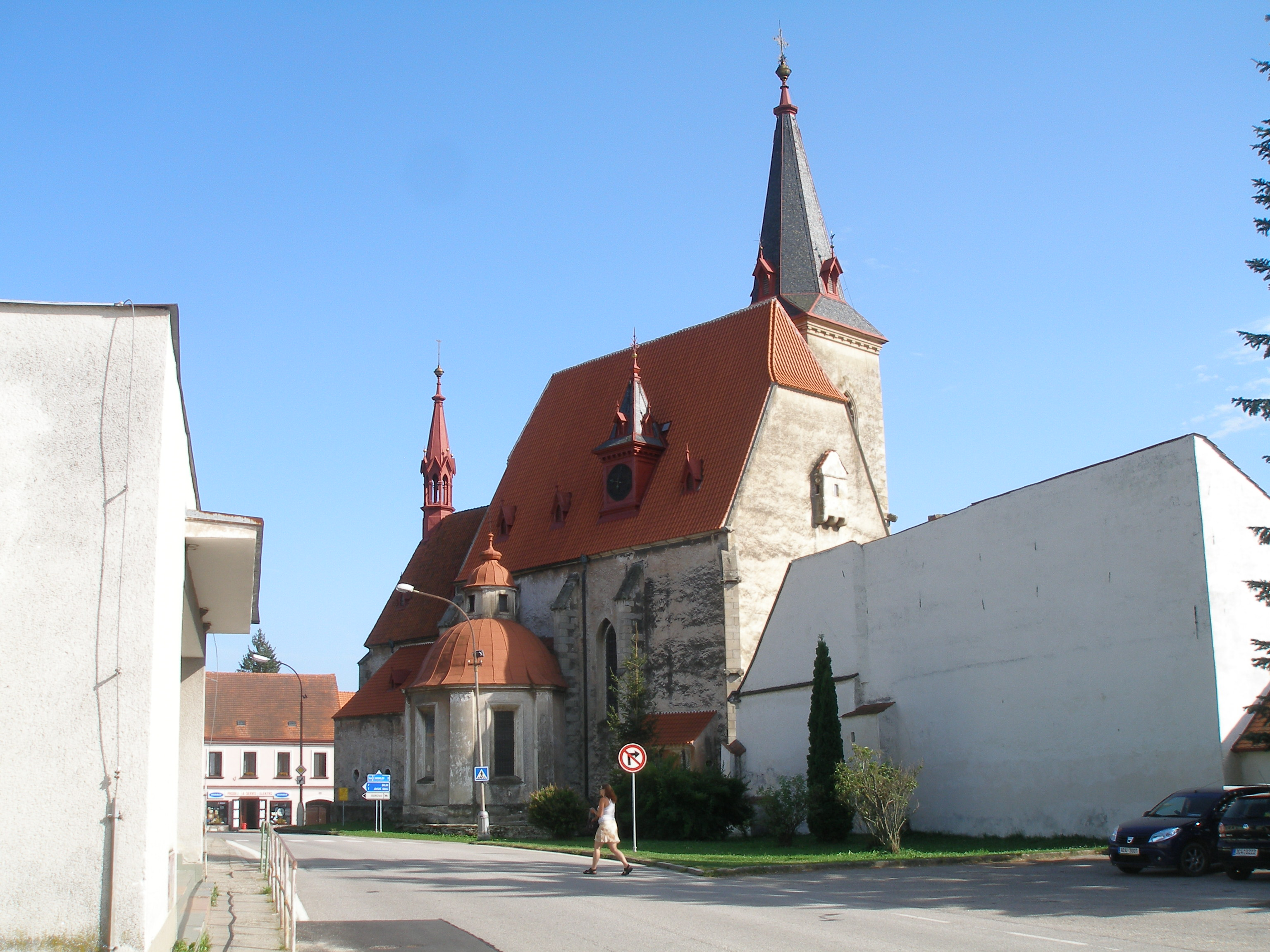 The church of Saint Mary Magdalene in Chvalšiny